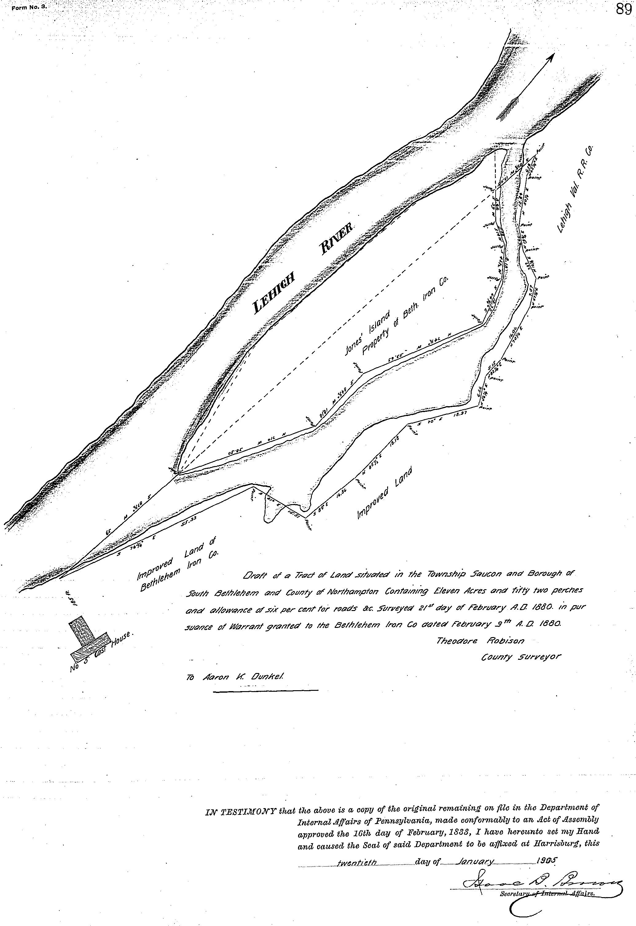 Draft of a Tract of Land in the Township of Saucon and Borough of South Bethlehem and County of Northampton containing Eleven Acres and fifty-two perches Bethlehem Iron Compay